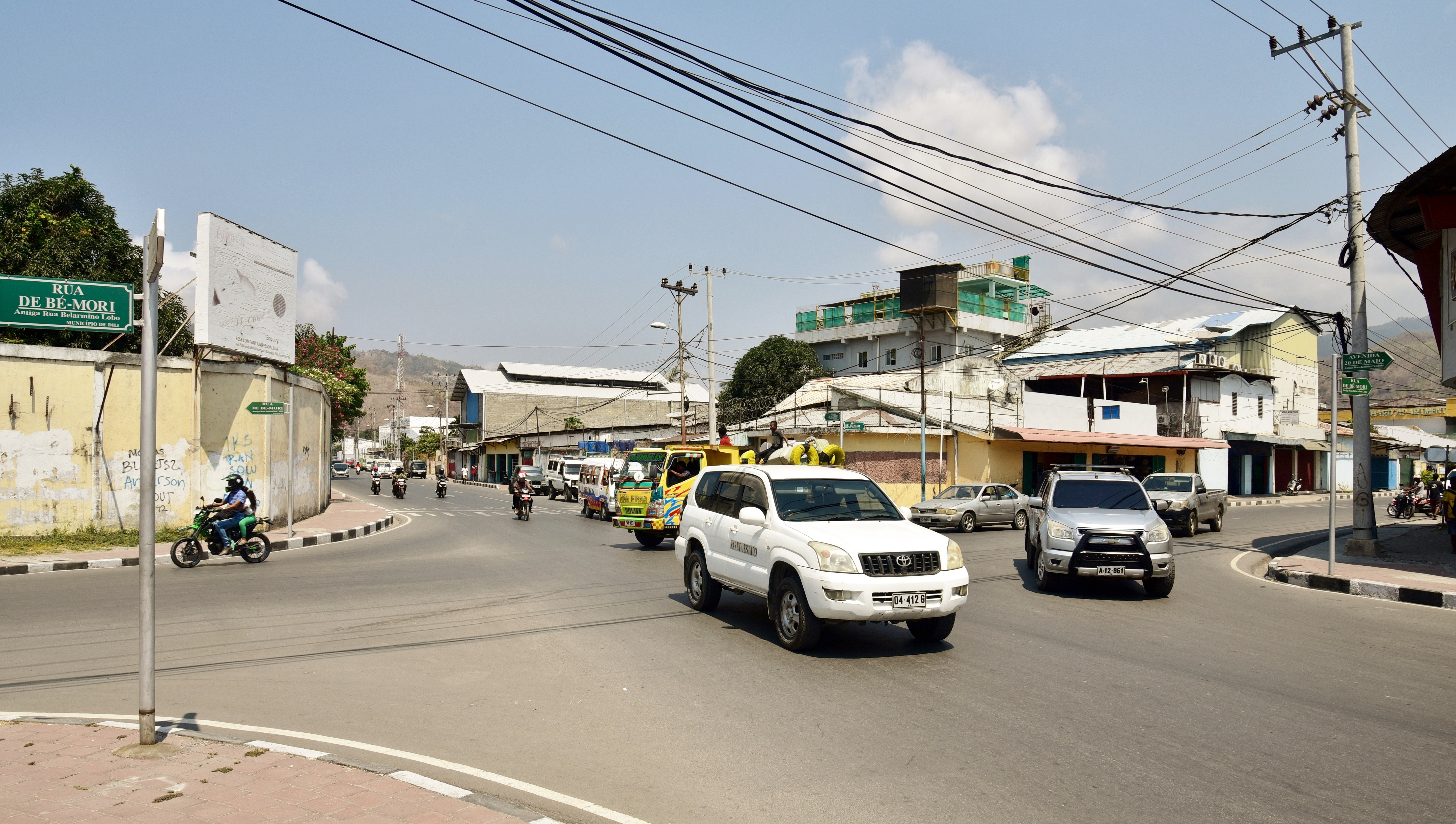 View of Avenida 20 de Maio crossing Rua de Bemori, Nain Feto, Dili, East Timor. Here are meeting the three sucos Santa Cruz, Gricenfor and Acadiru Hun.